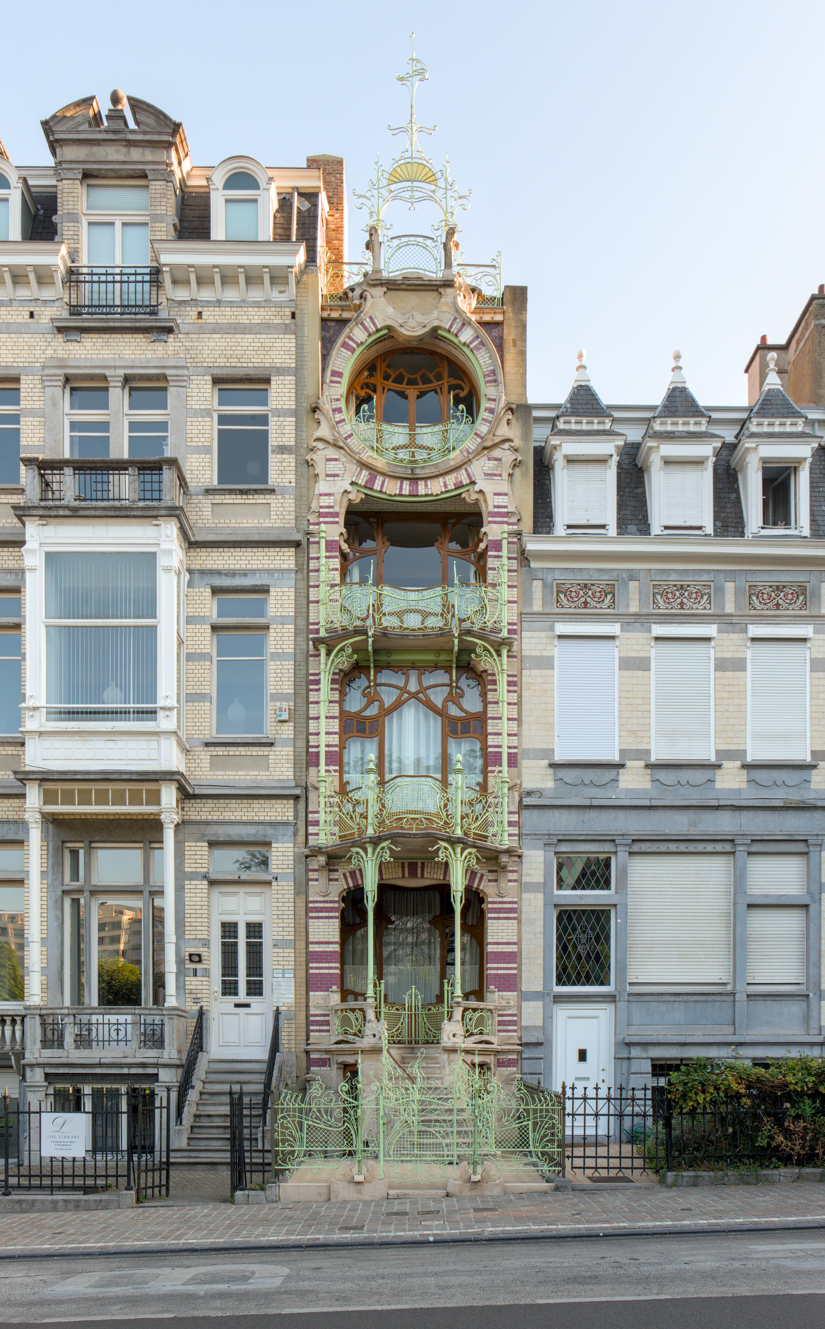 Maison Saint-Cyr on Square Ambiorix 11, Brussels This photo of immovable heritage has been taken in the Brussels Capital Region